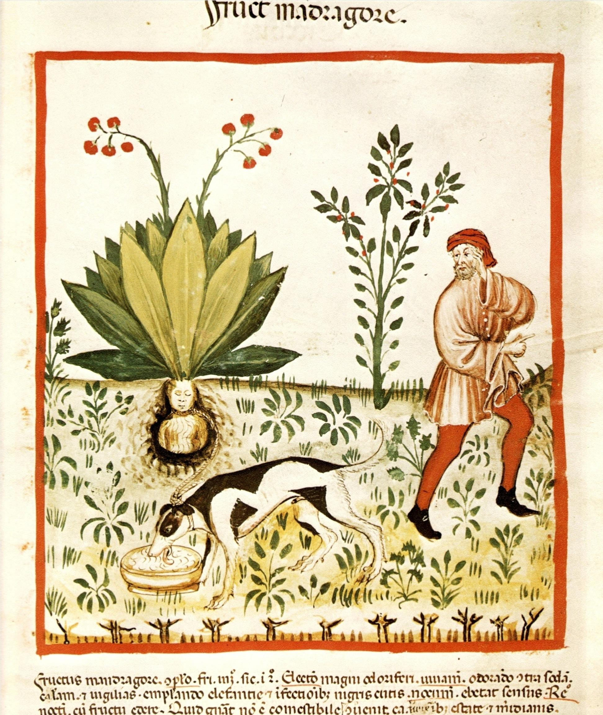 Mandrake (Mandragora officinarum) from Tacuinum Sanitatis manuscript (ca. 1390)